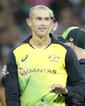 Ashton Agar takes celebrates a wicket